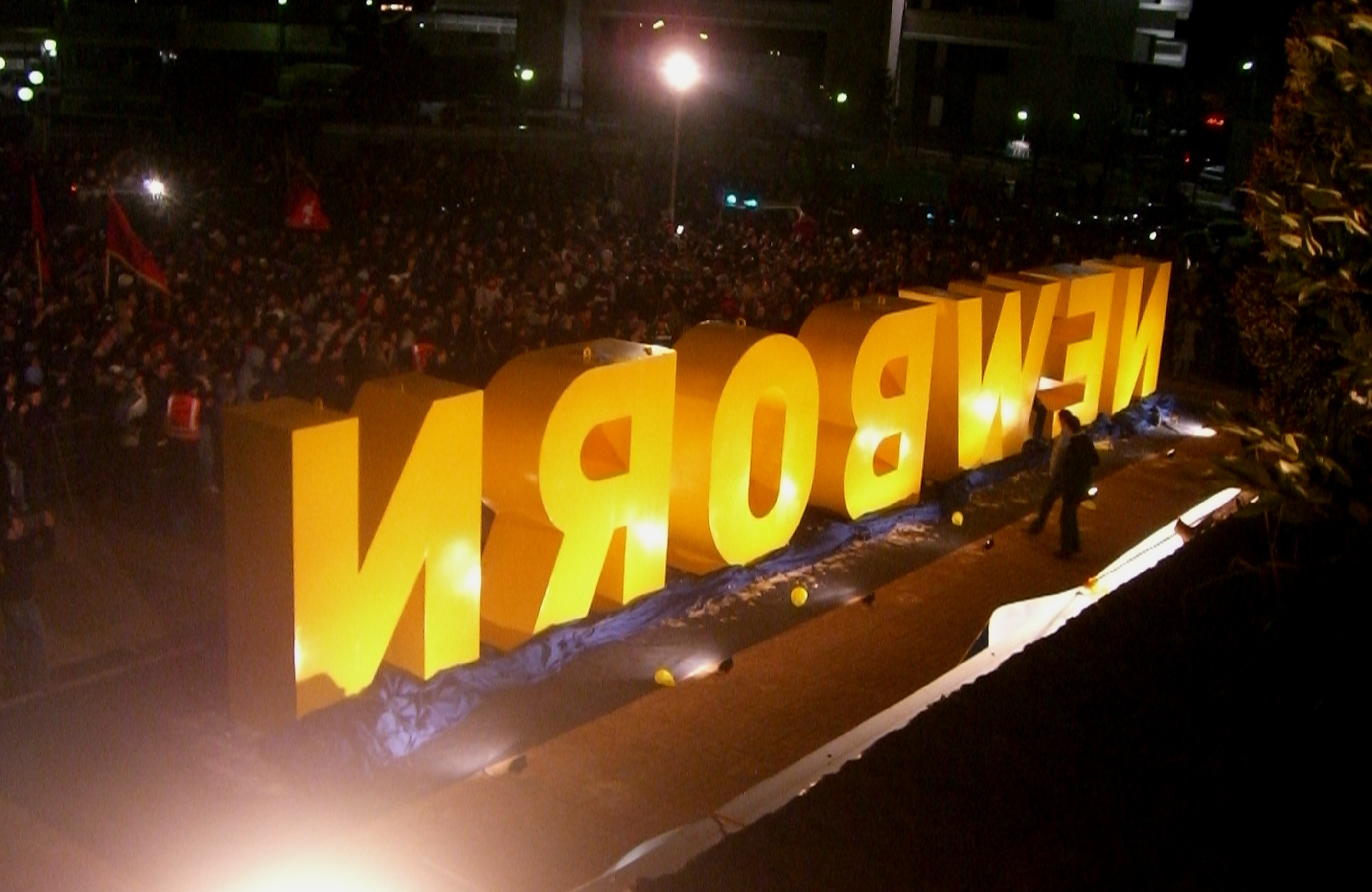 The NEWBORN obelisk at the kosovo declaration of Independence